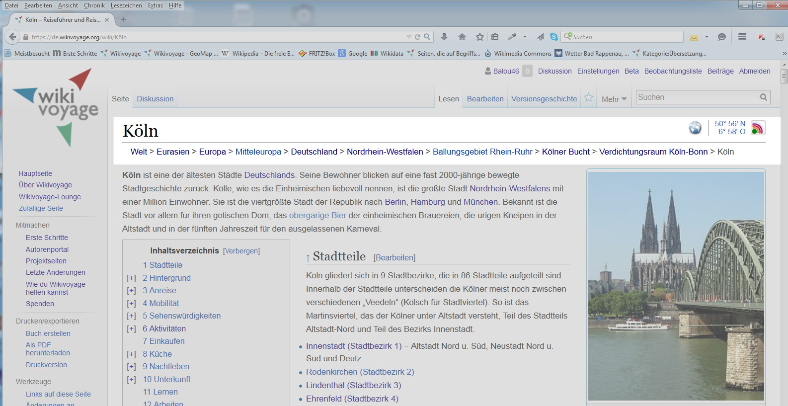 Breadcrumb navigation